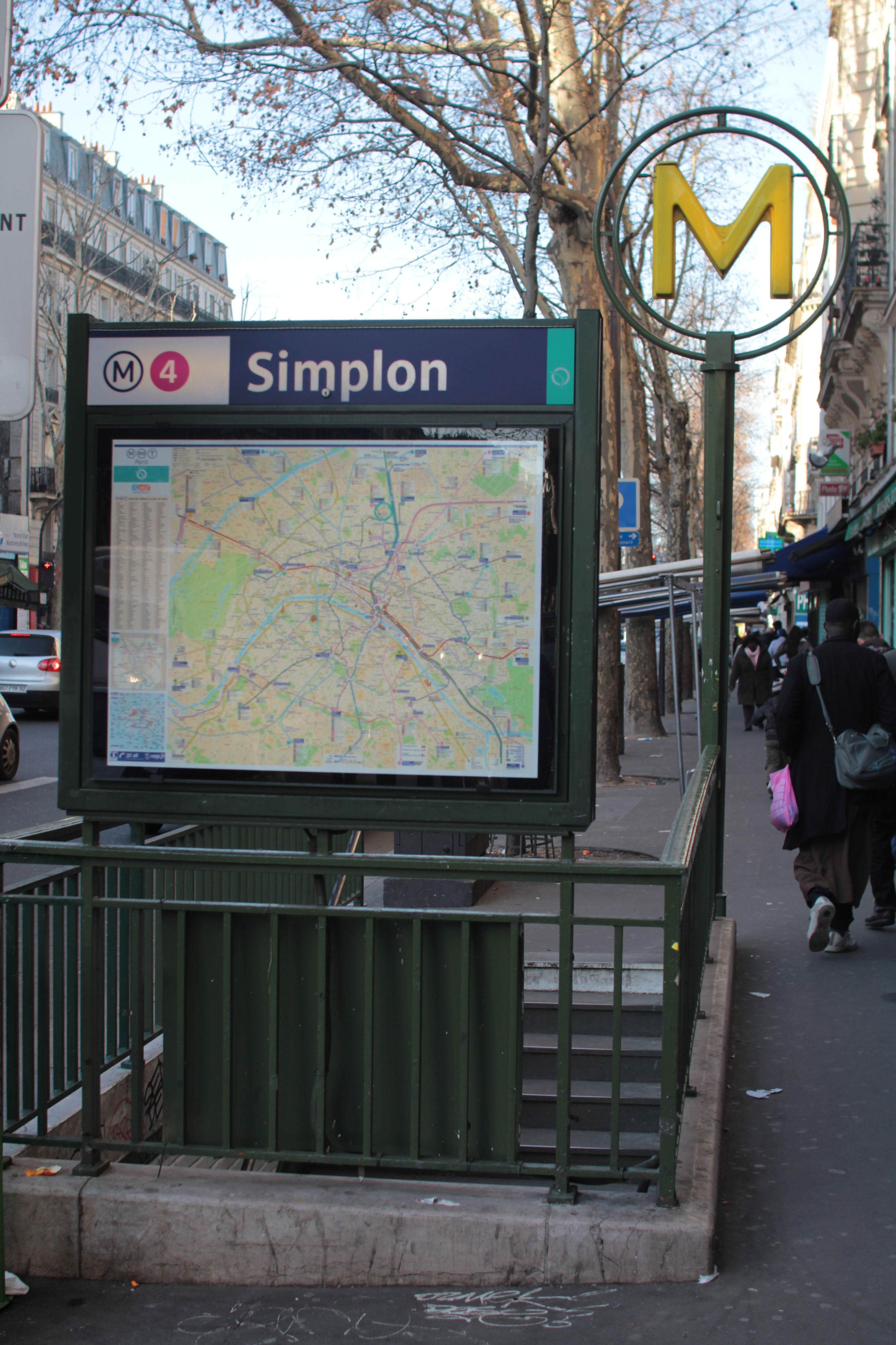 Entrance of the Simplon metro station in Paris on the Boulevard Ornano